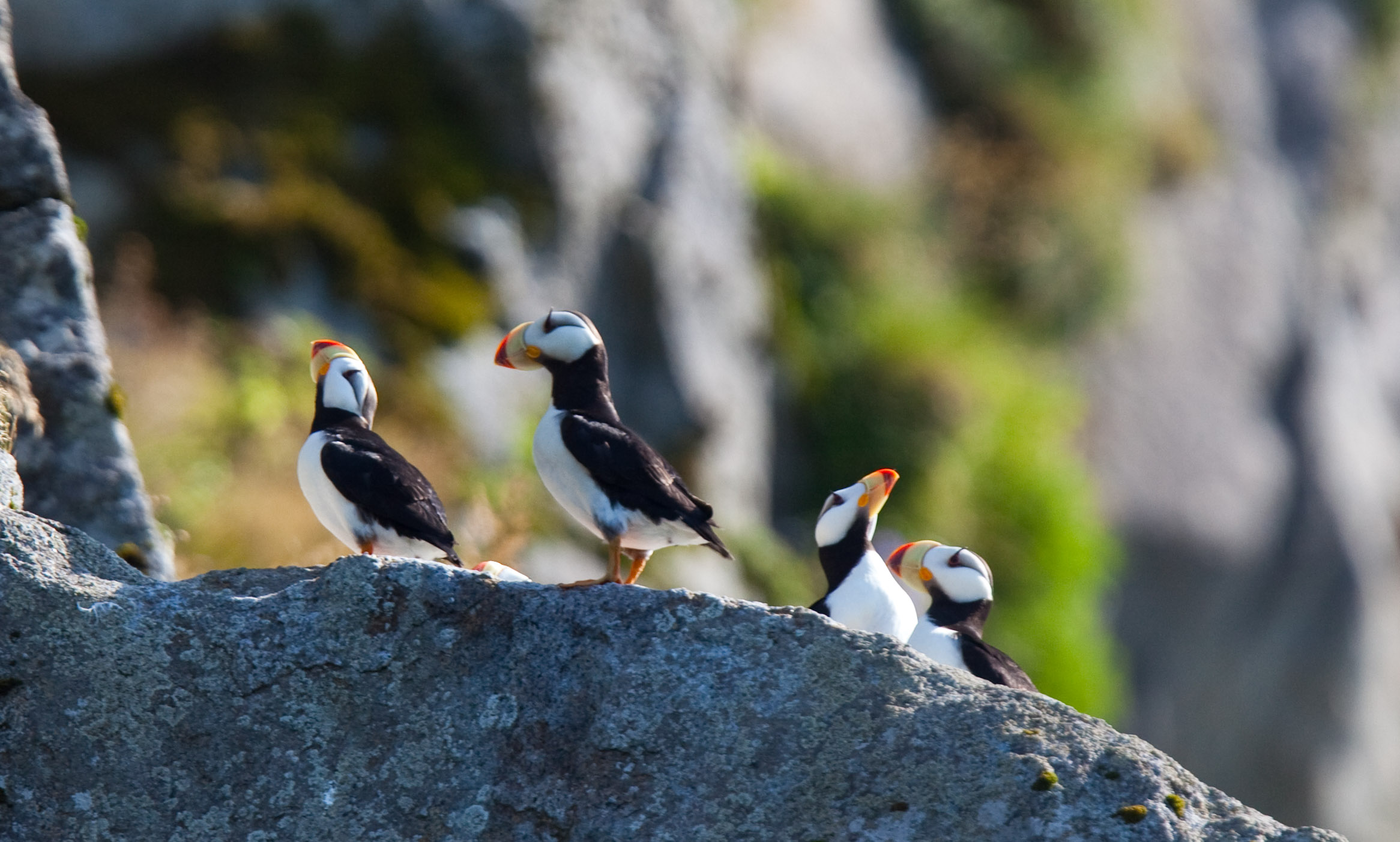 Horned Puffins at Kenai Fjords National Park, Alaska, USA.